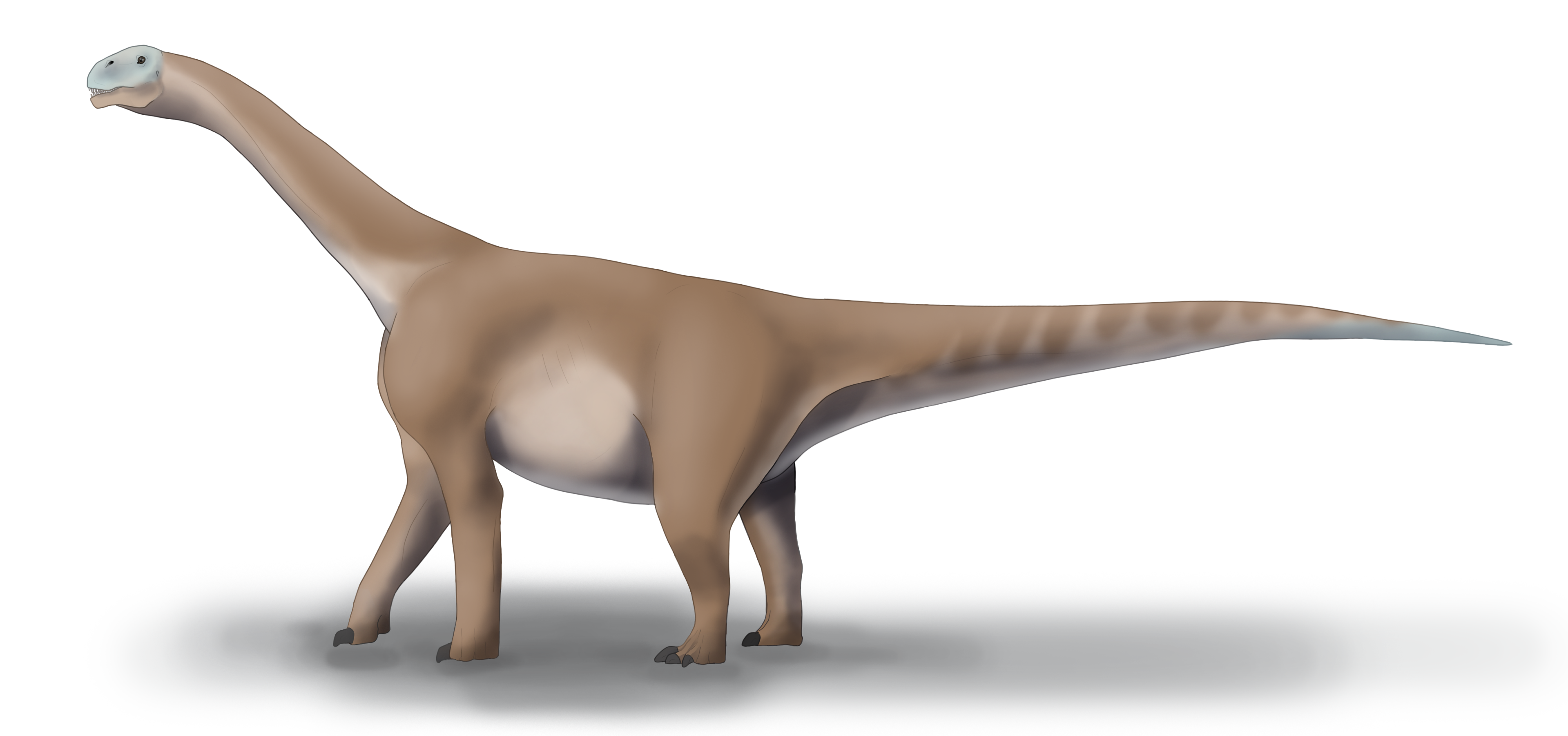 Restoration of Moabosaurus utahensis based on known fossil elements